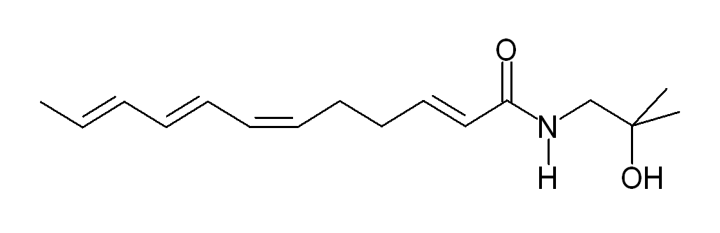 Key compound in Sichuan Pepper